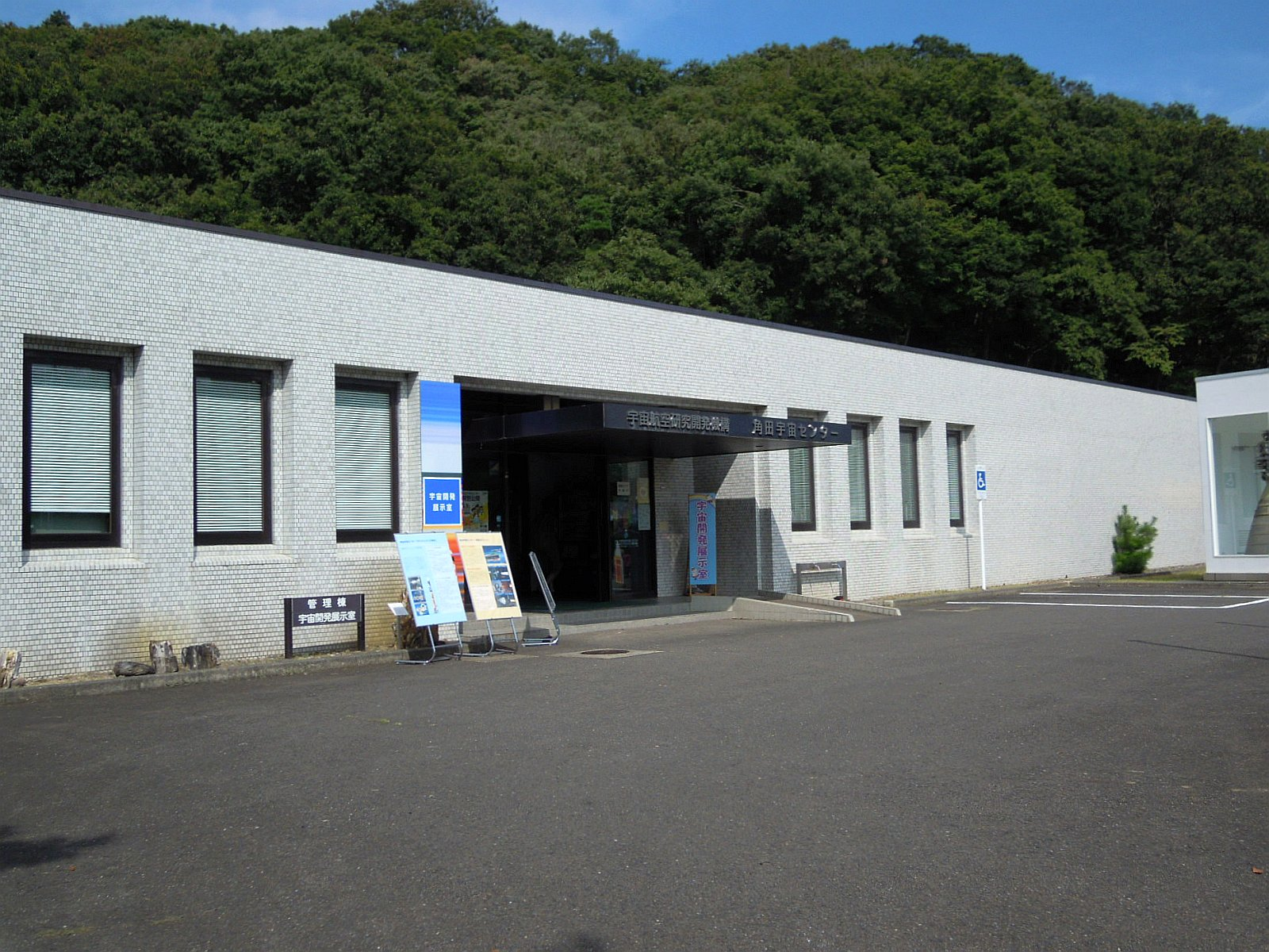 Space Development Exhibition Room of Kakuda Space Center, The Japan Aerospace Exploration Agency in Kakuda city, Miyagi Prefecture, Japan.